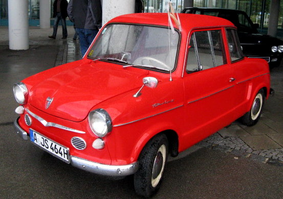 NSU Prinz III